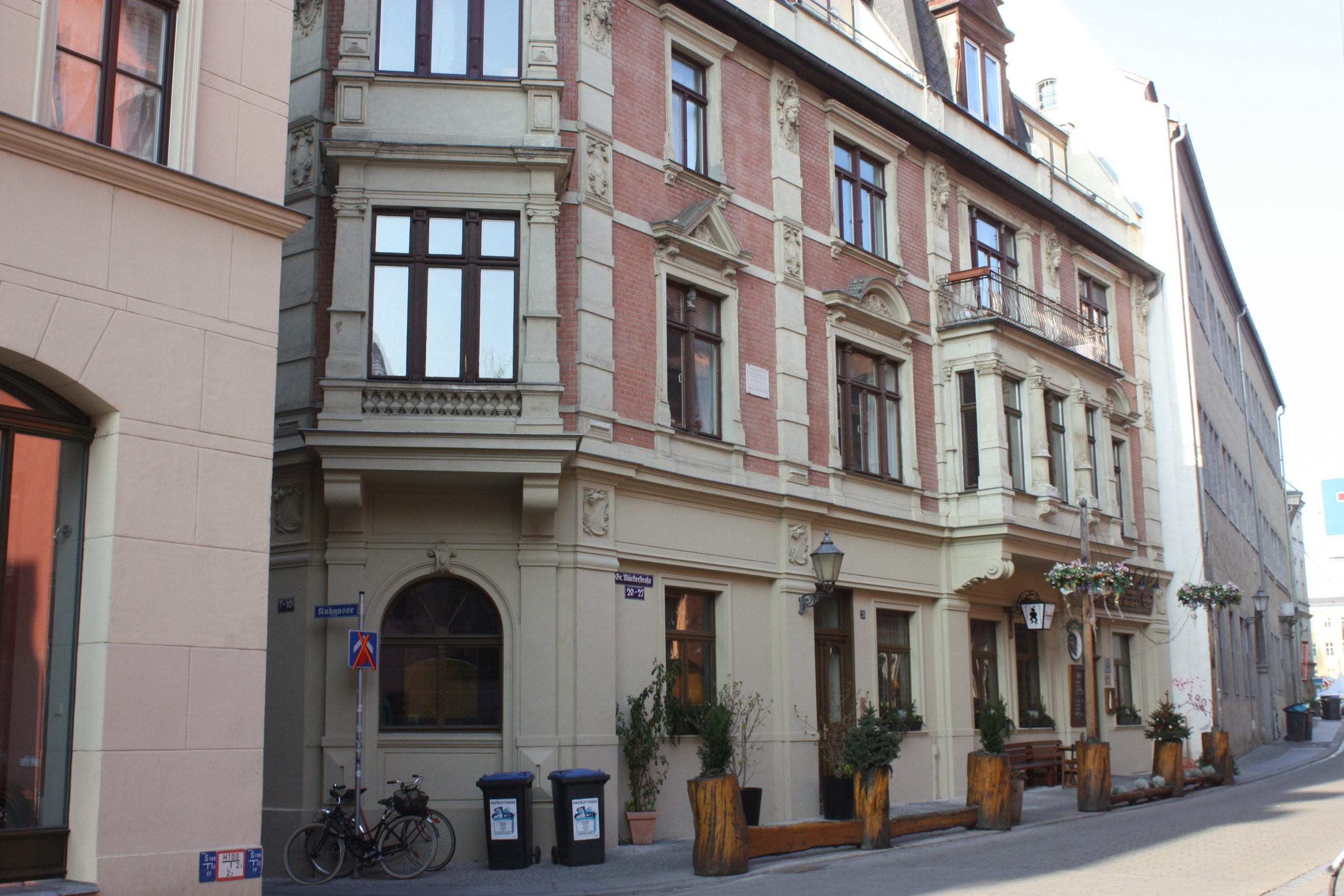 Halle (Saale), das Restaurant "Zum groben Gottlieb"